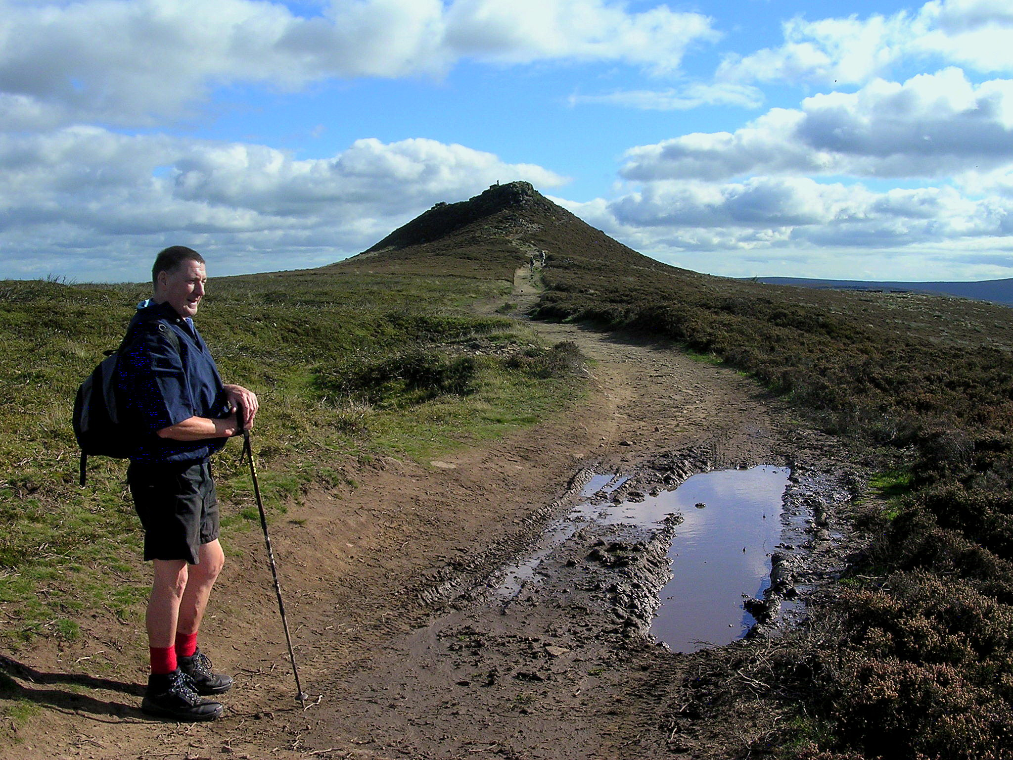 Brian Jones,original photograph of the approach to Win Hill